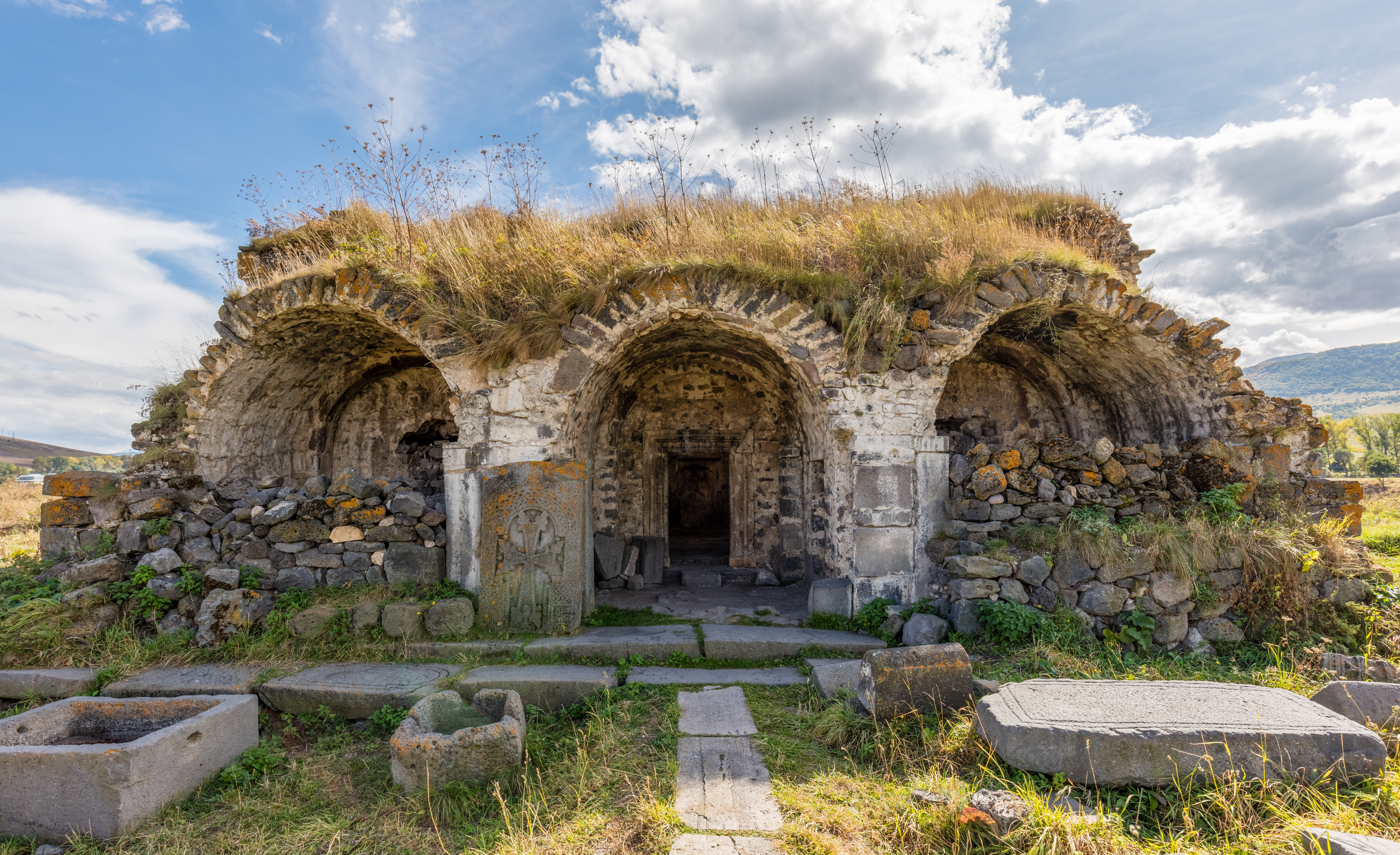 Ruined Armenian church inside Lori Berd (Lori Fortress), an 11th-century fortress located in the Lori Province, Armenia. The fortress was built by David Anhoghin to become the capital of Kingdom of Tashir-Dzoraget in 1065.